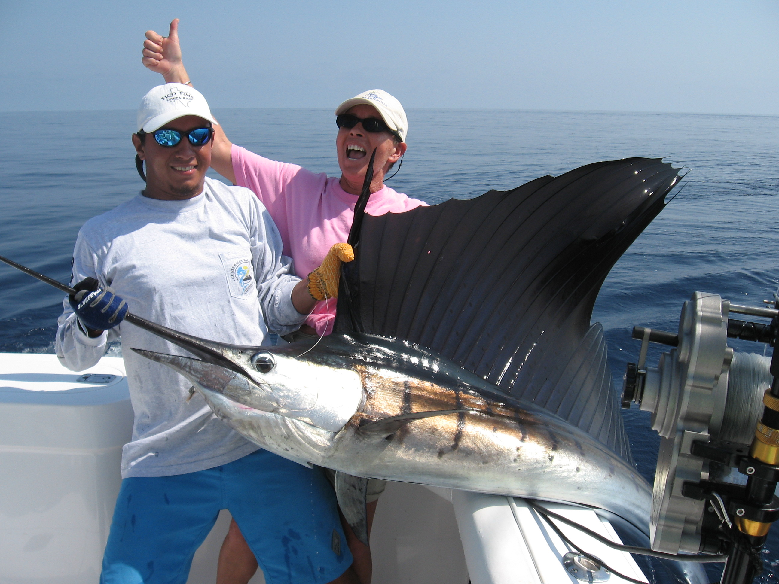 Costa Rica Sport Fishing